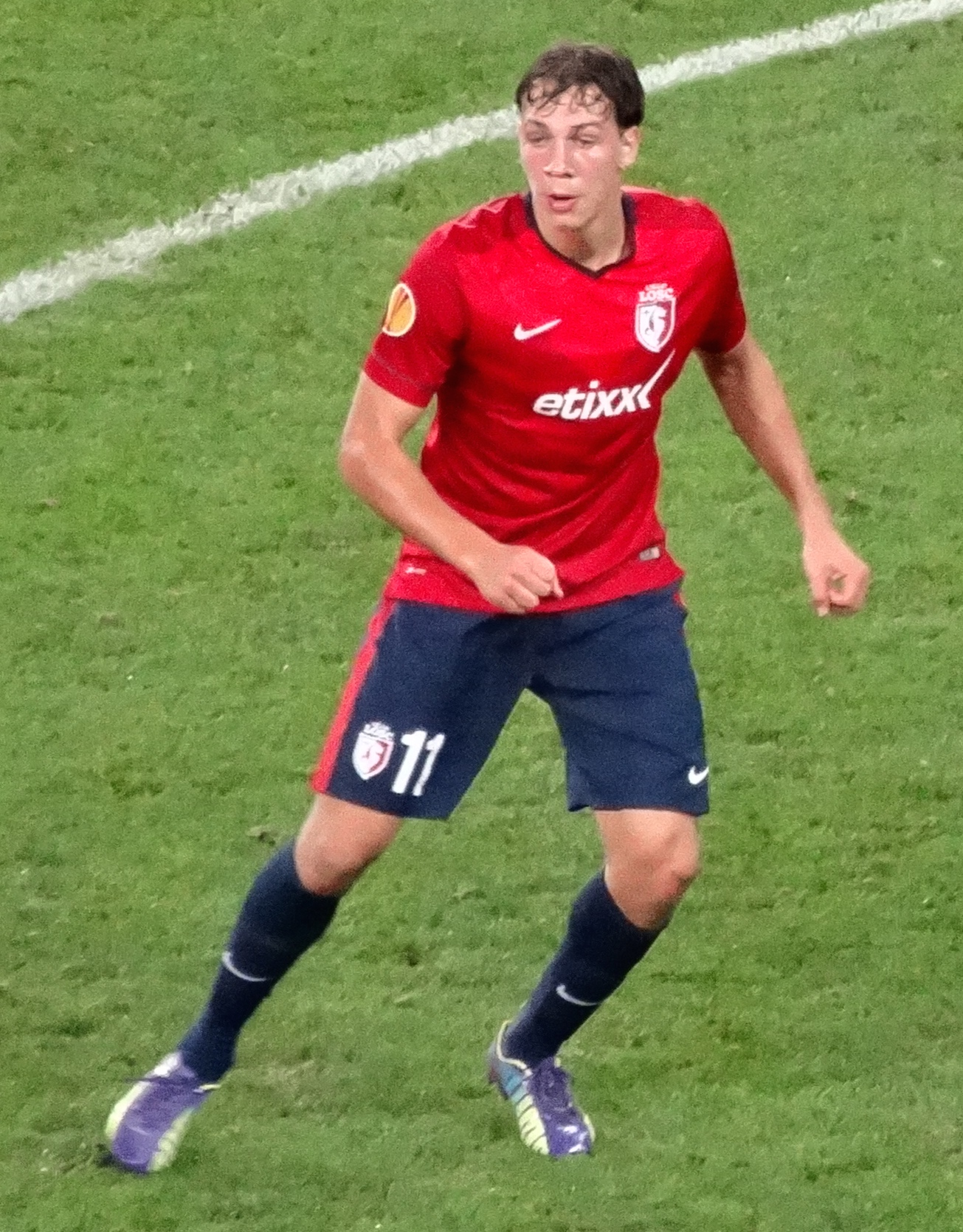 Michael Frey (LOSC Lille)